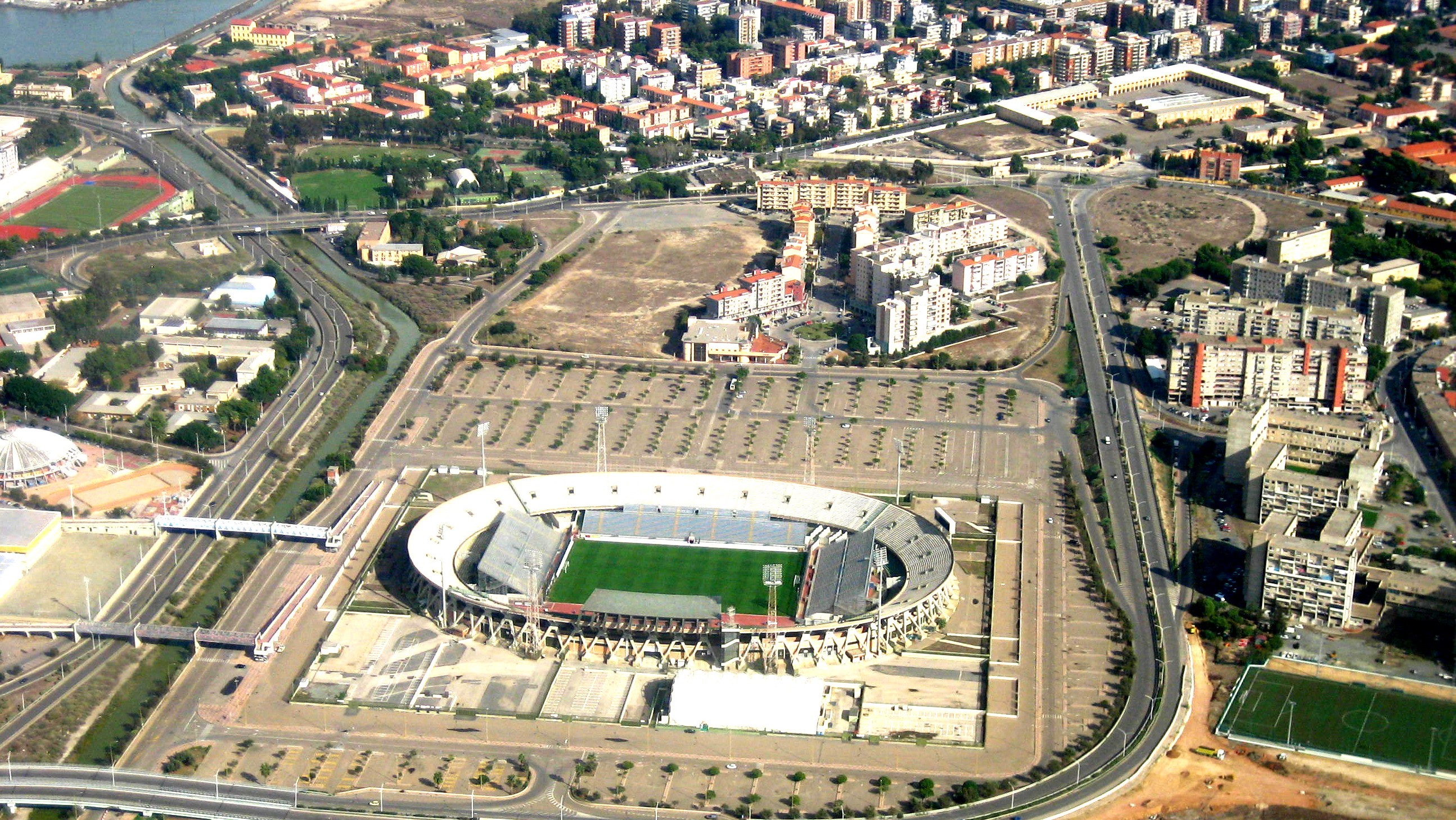 Stadio Sant'Elia, a football stadium in Cagliari, Italy. It is currently the home of Cagliari Calcio. Photo from the air.